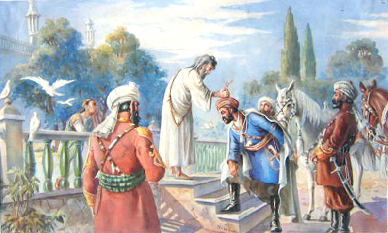 Figure 1. "Coronation" of Ahmad Khan Abdali. Translation of captions at top: No. 6. Drawing by Breshna, the famous contemporary Afghan artist. Sher-e Sorkh: The cluster of wheat is being placed on Ahmad Shah's turban. Since Saber Shah was a Sufi, he was respected by all leaders. Thus, Ahmad Khan was declared king of Afghanistan and the National Jerga of Sher-e Sorkh was adjourned after it accomplished an important historical task. Ahmad Khan left the Jerga as the king, wearing a gold-colored crown made of a cluster of wheat. This historic natural crown was placed on the corner of Ahmad Khan’s hat by Saber Shah. Ghobar’s text is accompanied by a colorful drawing by ’Abd al-Ghafur Breshna, a member of the royal lineage and a charter member of the Anjuman-e Adabi. This version of the accession of Ahmad Khan to the kingship of Afghanistan was included in many government cultural productions including the history textbook written by M. Osman Sedqi for grade 12 of Afghan high schools.(93) The Persian language textbook was first published in 1949 and was in use, at least through 1954, when I graduated from Ghazi High School. Sedqi was a member of Anjuman-e Tarikh (Persian: Historical Society), one of two successors.